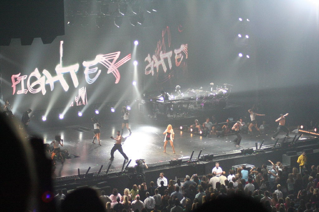 Christina Aguilera sings "Fighter"